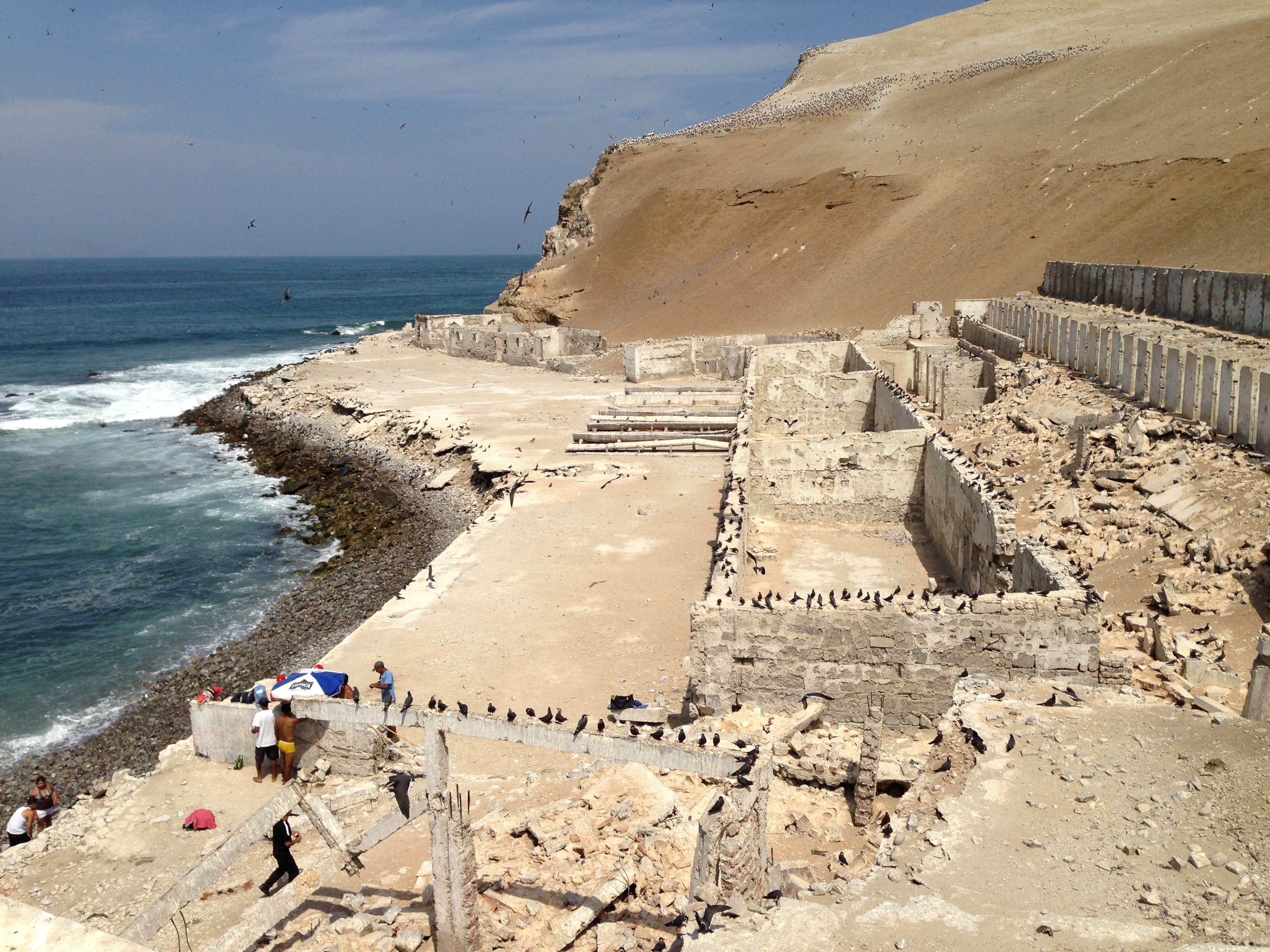 Ruins on the Peruvian island of El Frontón